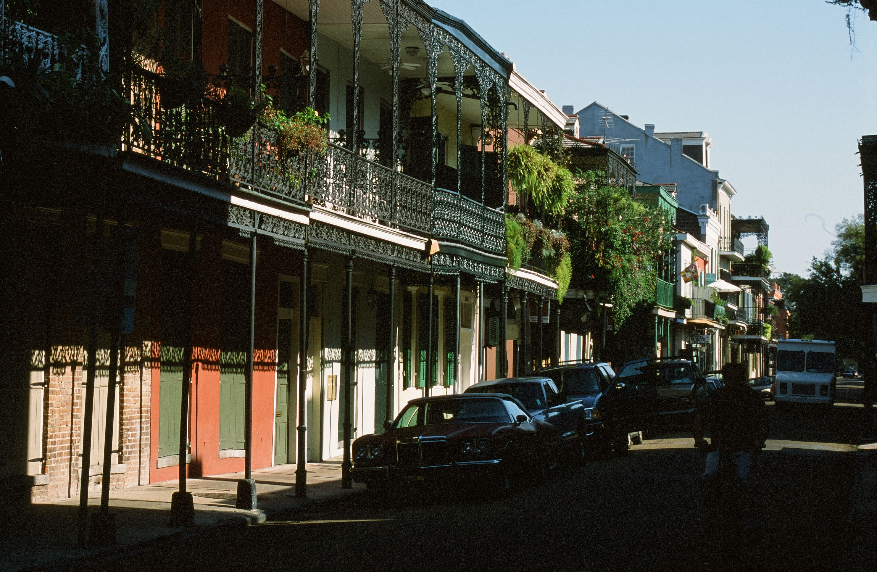 French Quater street scene. Scanned slides from a 2004 trip to New Orleans.